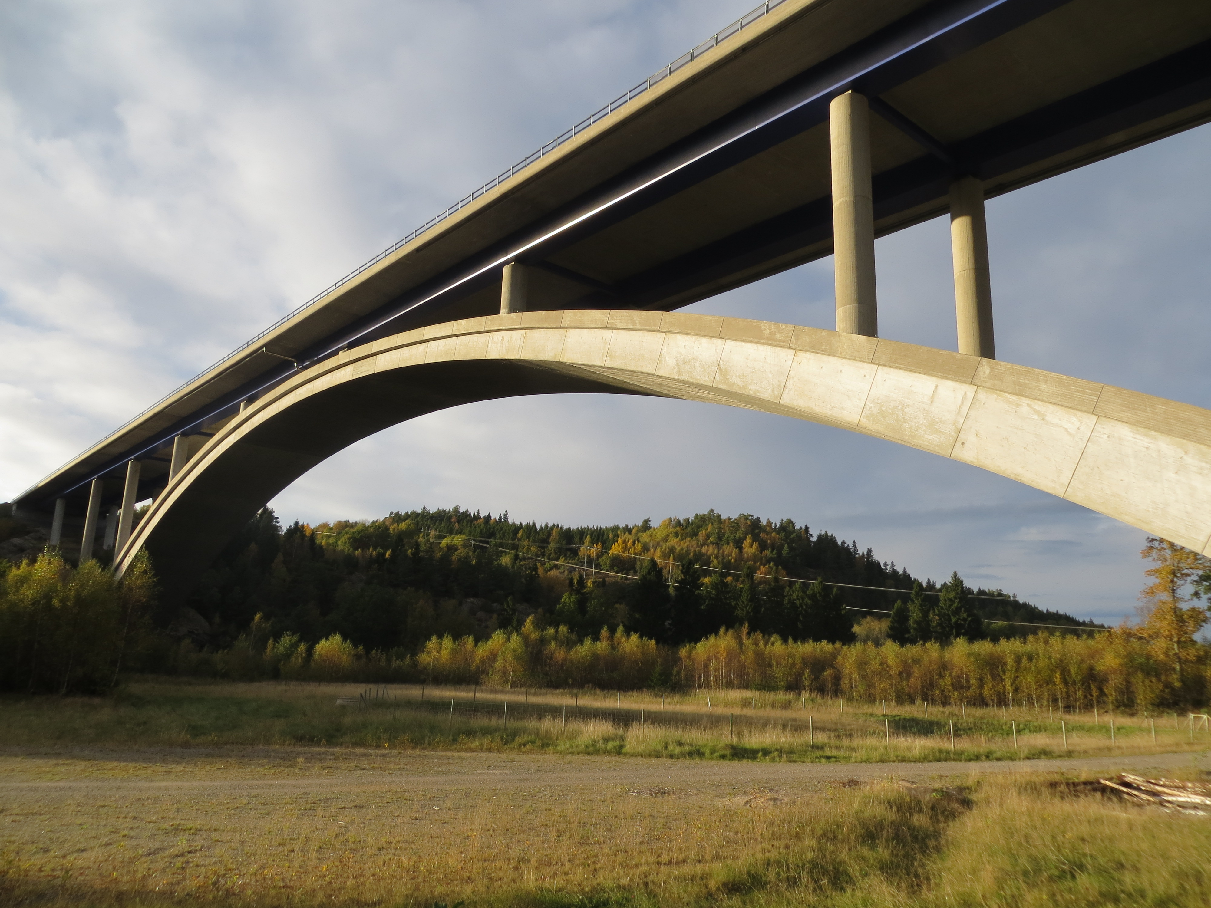 The Örekilsälven river, between Munkedal city and th river outlet into Gullmarsfjorden - municipality of Munkedal, western Sweden. The bridge Munkedalsbroen is the dominant structure at this stretch of the river, built by NCC 2005-08.